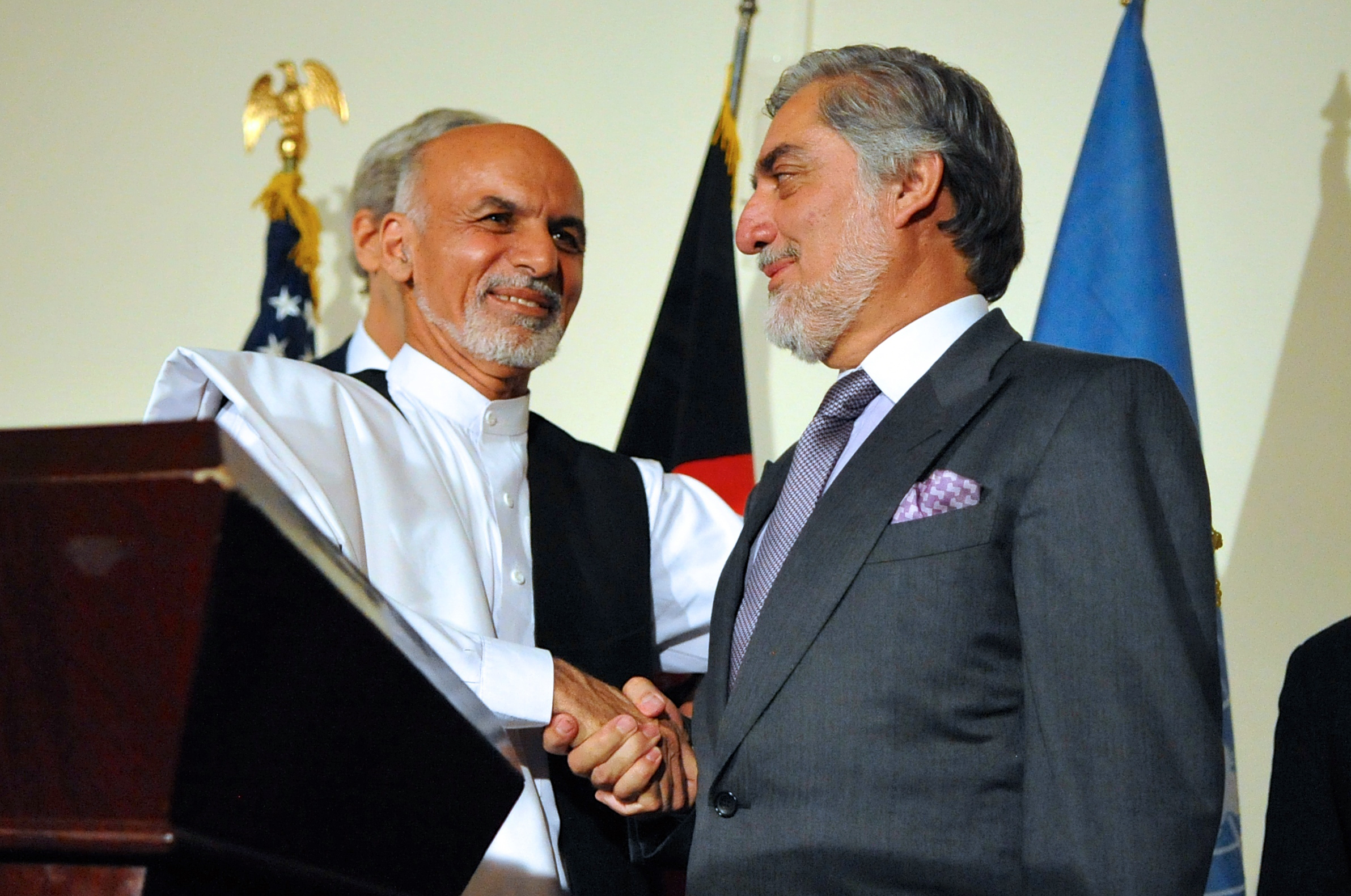 Afghan presidential candidate Ashraf Ghani shakes hands with rival candidate Abdullah Abdullah after both addressed reporters at the United Nations Mission Headquarters in Kabul, Afghanistan on July 12, 2014, about the details of an agreement on a technical and political plan U.S. Secretary of State John Kerry helped broker to resolve the disputed outcome of the election between him and Abdullah.